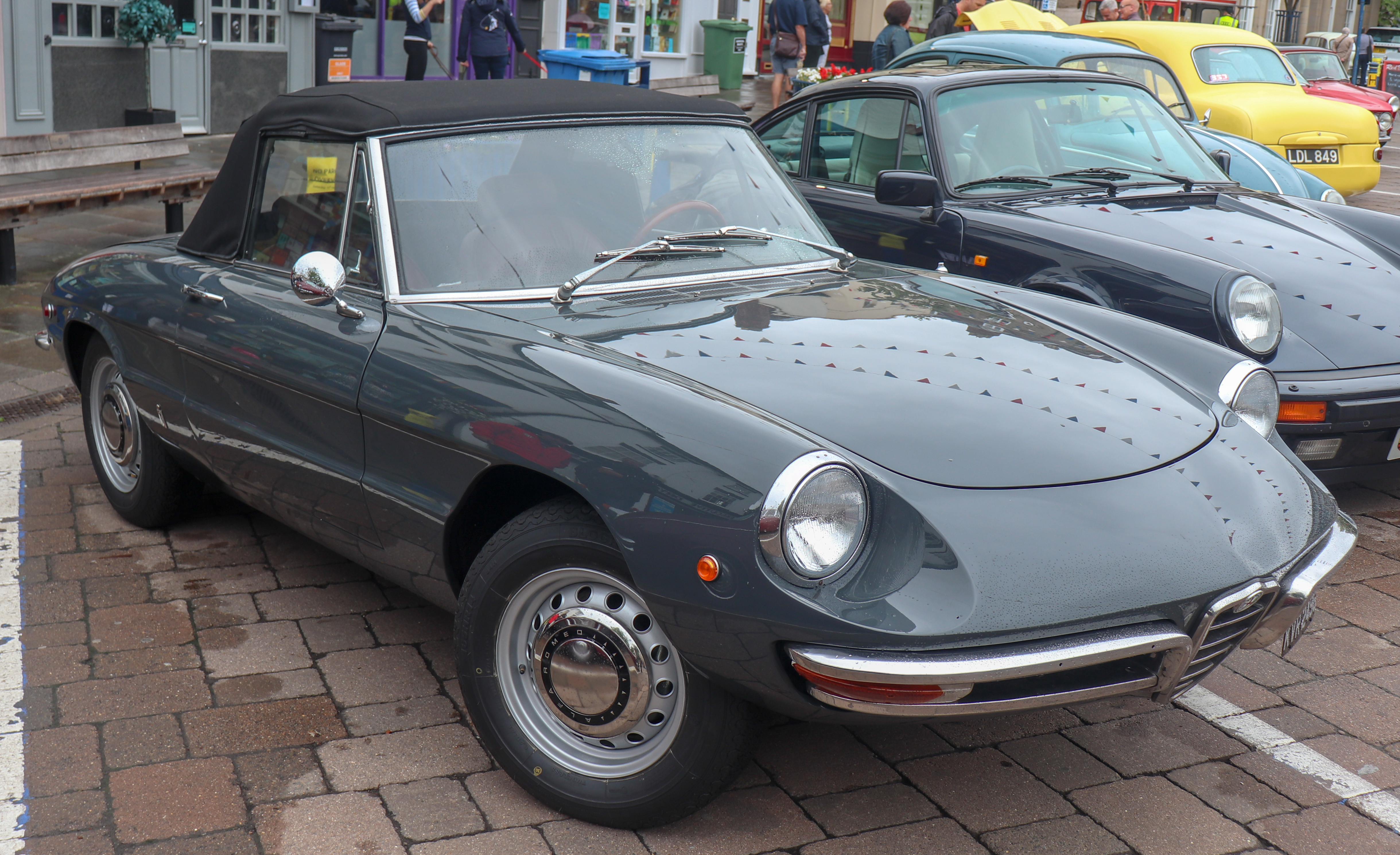 1969 Alfa Romeo Spider Series 1 1.8 Front Taken at the 2018 Warwick Classic Car Show